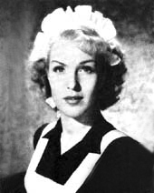 Swedish actress Eva Dahlbeck, 1940s